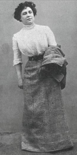 Spanish Actress Matilde Moreno